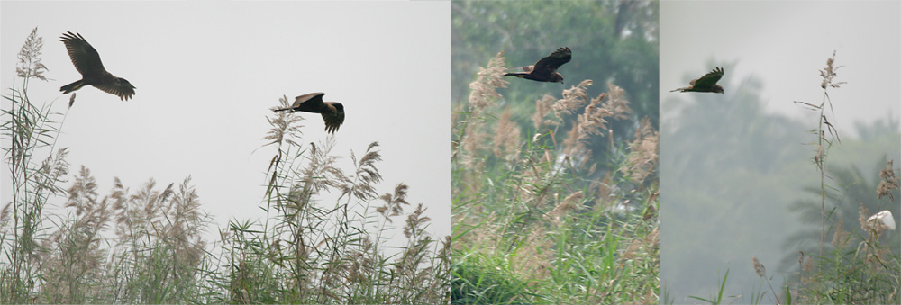 Eurasian Marsh Harrier Circus aeruginosus in Kolkata, West Bengal, India.